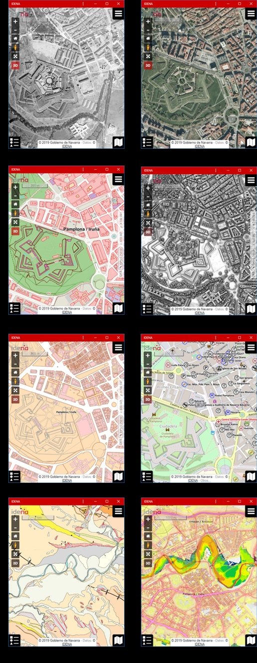 IDENA SDI maps